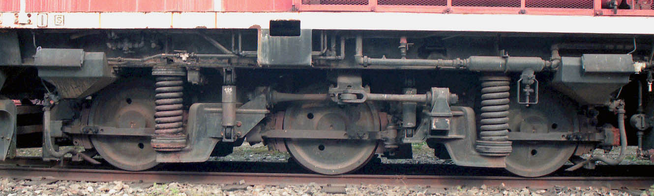 JNR Type DT140 Truck (for Type DE50 Diesel Locomotive)